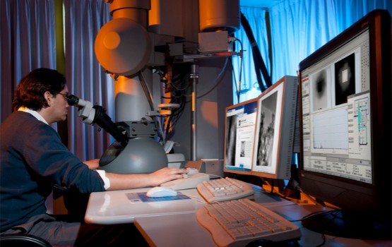 Largest electron microscope at Department of Geology, Universidad de Chile. Supported by MECESUP Program